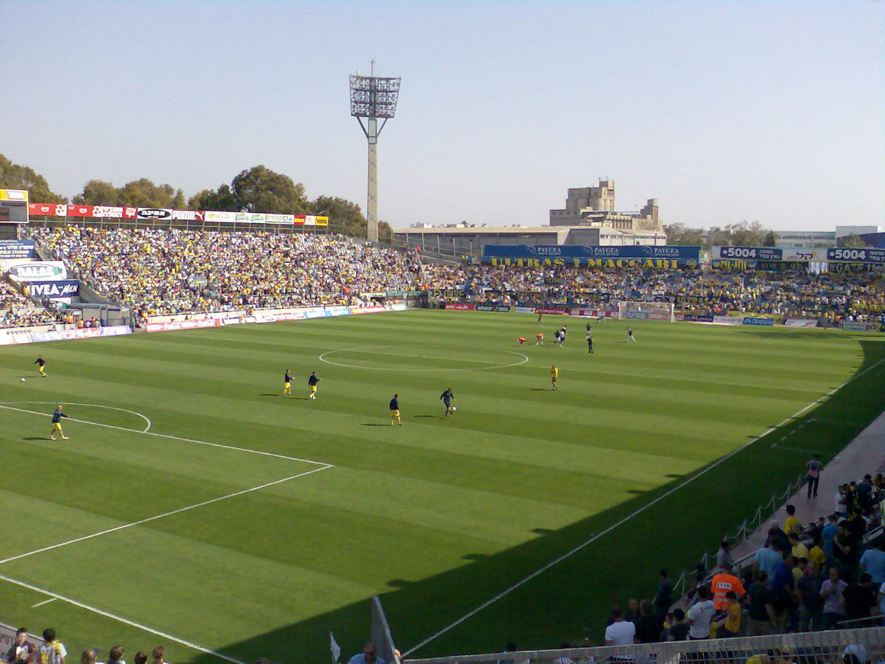 Maccabi Tel Aviv vs Beitar Jerusalem, Bloomfield Stadium